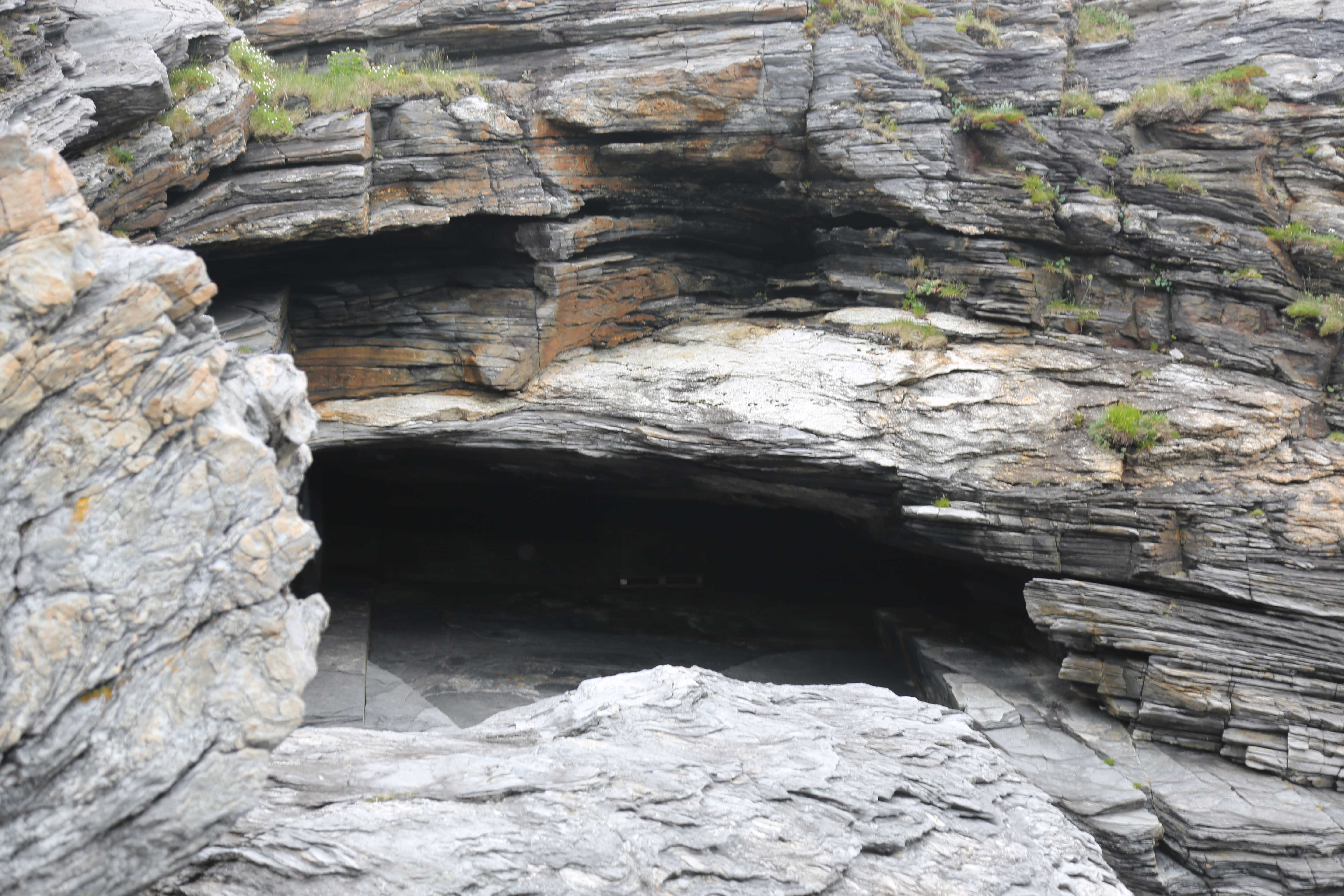 Kvithellehula i Hasvik kommune, Finnmark, is a cave facing the sea. Here 35 people stayed for 99 days in order to escape the forced evacuation of Finnmark in World War II